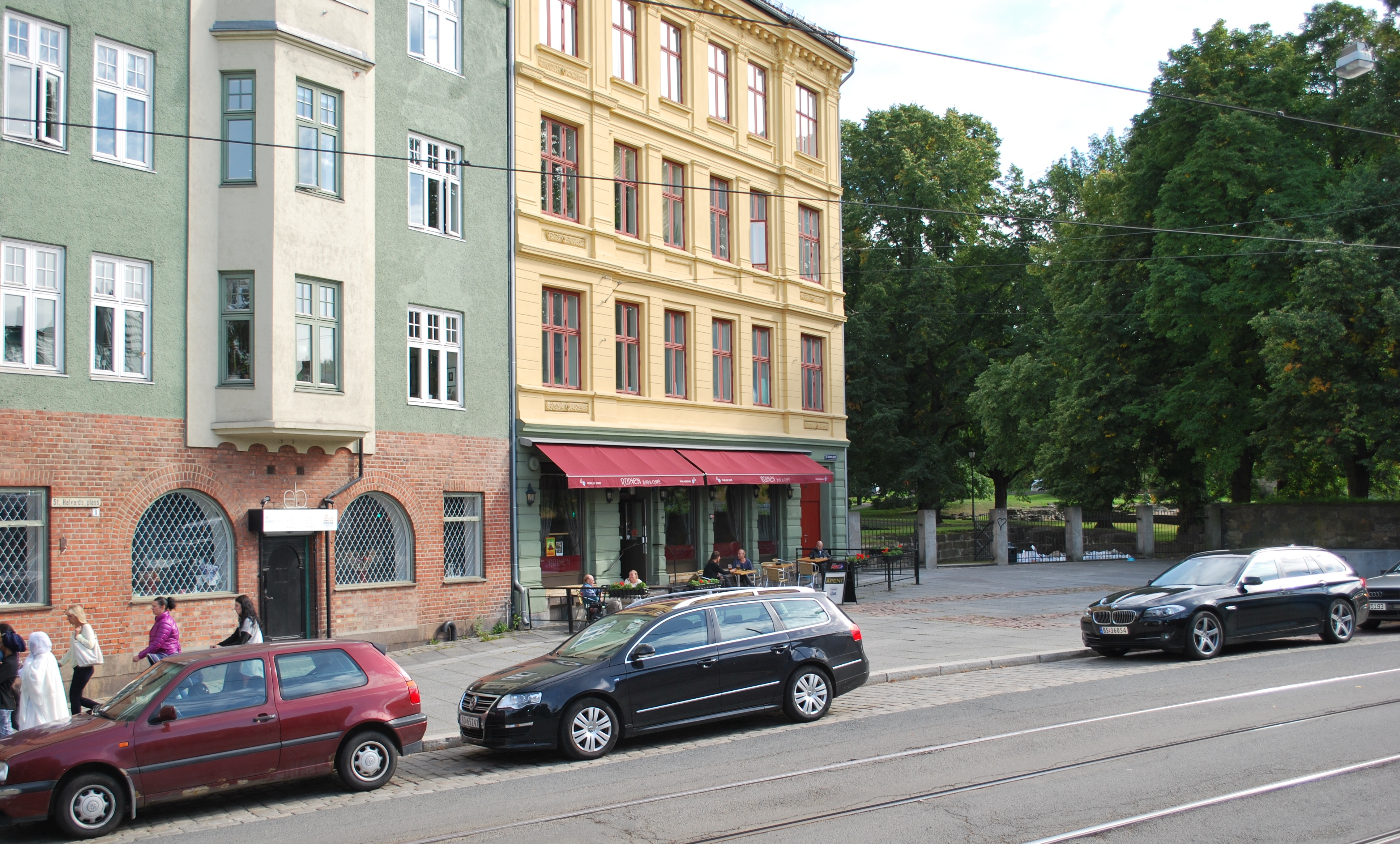 St Hallvards plass (square), Gamlebyen neighbourhood, Oslo